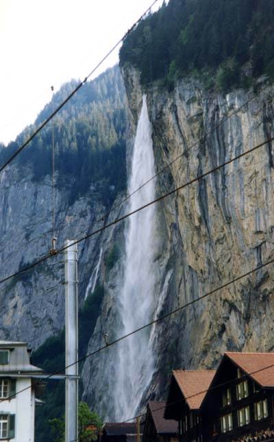 Staubbach Falls in Lauterbrunnen